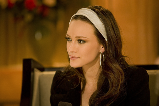 Taken at MuchMusic during the taping of Live@Much: Hilary Duff.